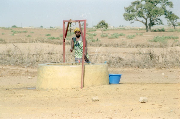 Well in Senegal.